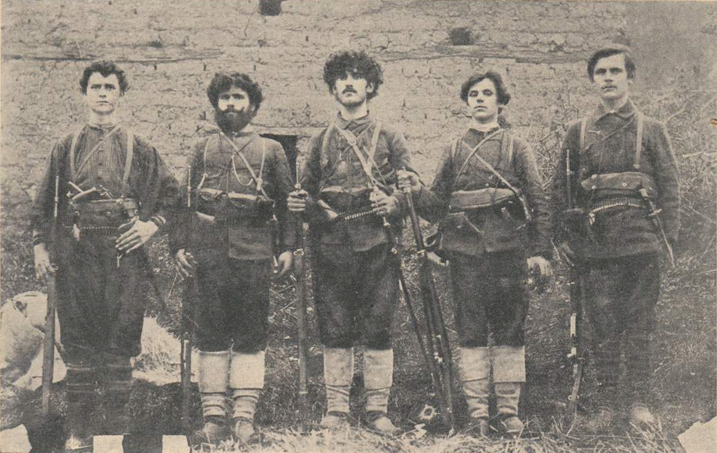 Atanas Karshakov's band.